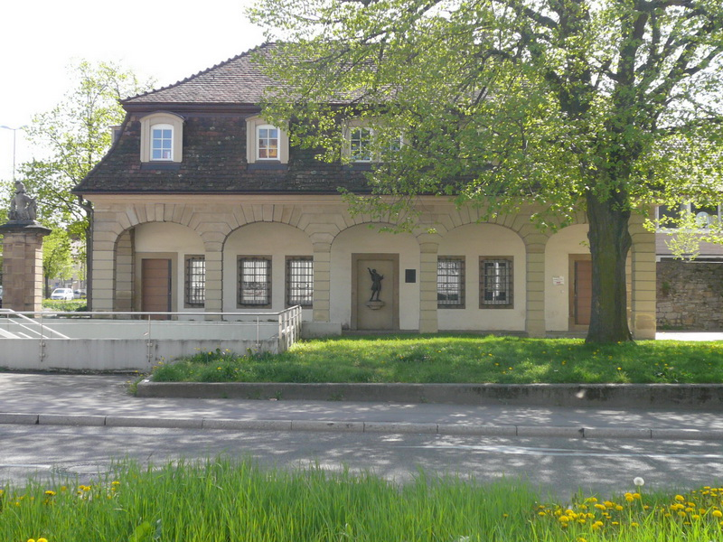 Stuttgart gatehouse, Ludwigsburg